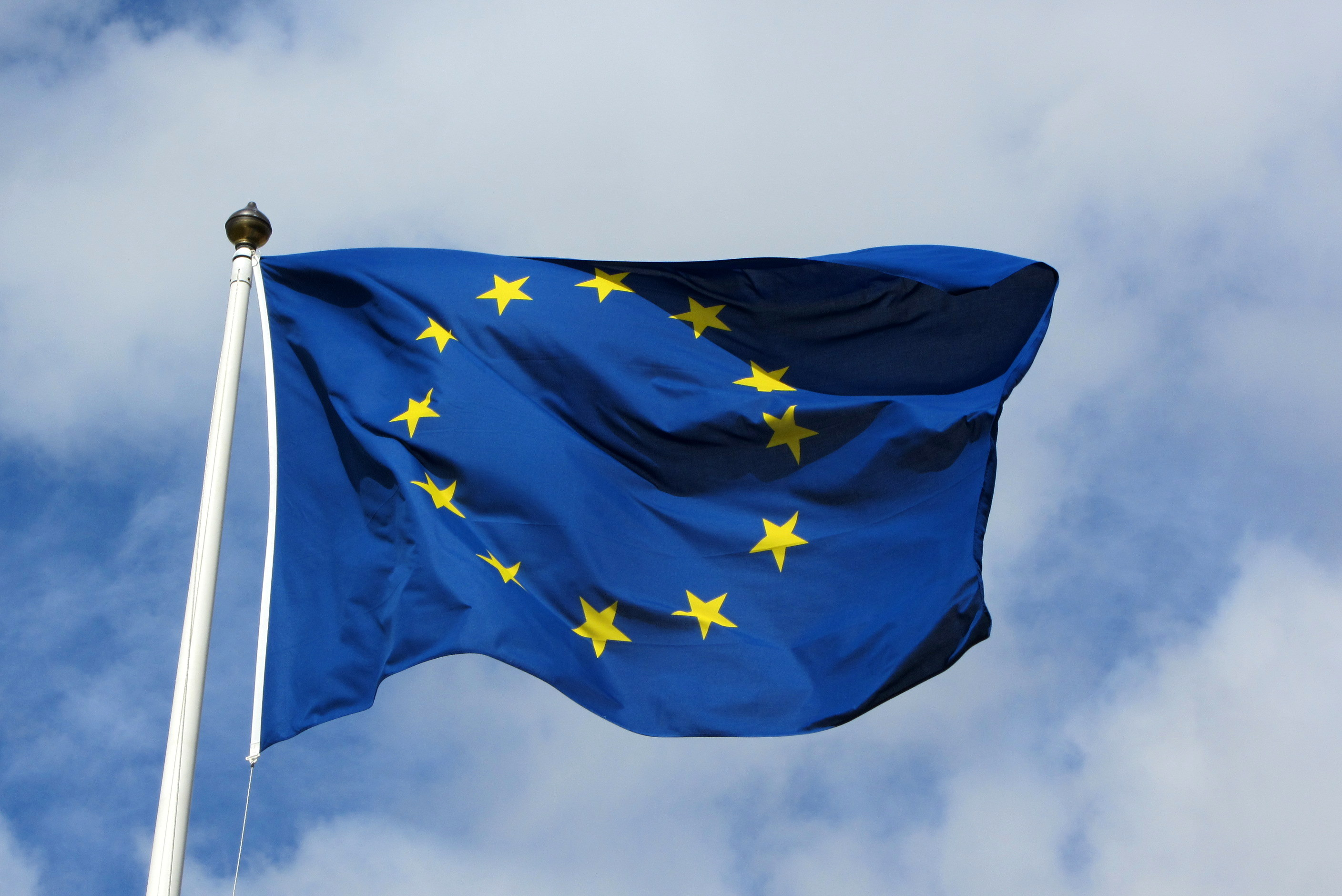 The flag of the European Union, seen in Karlskrona (Sweden) in 2011. Note that this flag was flown incorrectly as the stars were upside down (see Design in Flag of Europe).